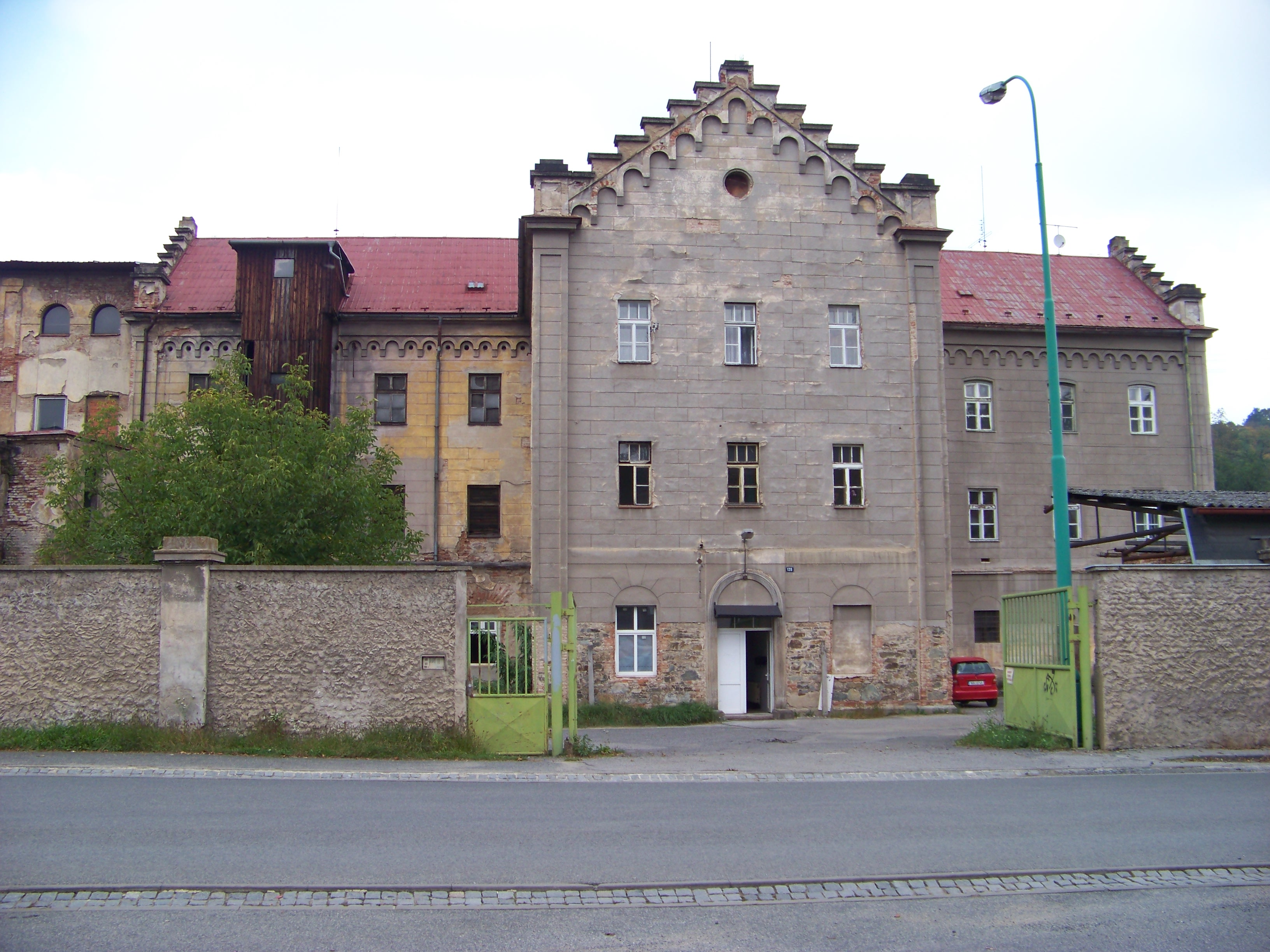 Vrané nad Vltavou, Prague-West District, Central Bohemian Region, Czech Republic. Nádražní 139, a factory.